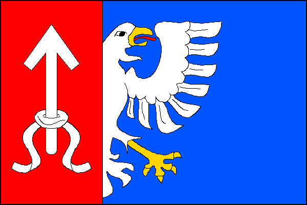 Municipal flag of Štramberk town, Nový Jičín District, Czech Republic.